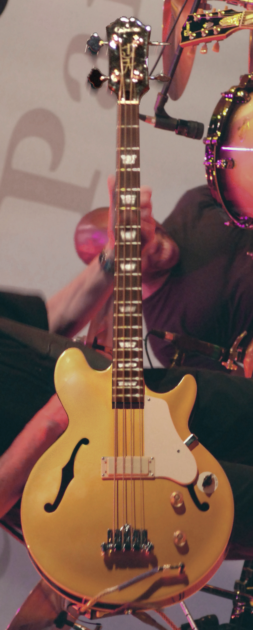 Epiphone Jack Casady Bass Jack Casady Electric Hot Tuna at the Lowell Summer Music Series - Boarding House Park